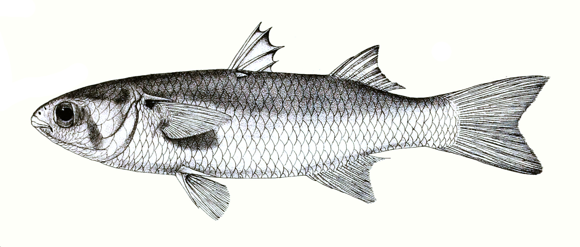 Valamugil speigleri syn. Mugil speigleriThe species names / identity need verification. The original plates showed the fishes facing right and have been flipped here. Mugil speigleri